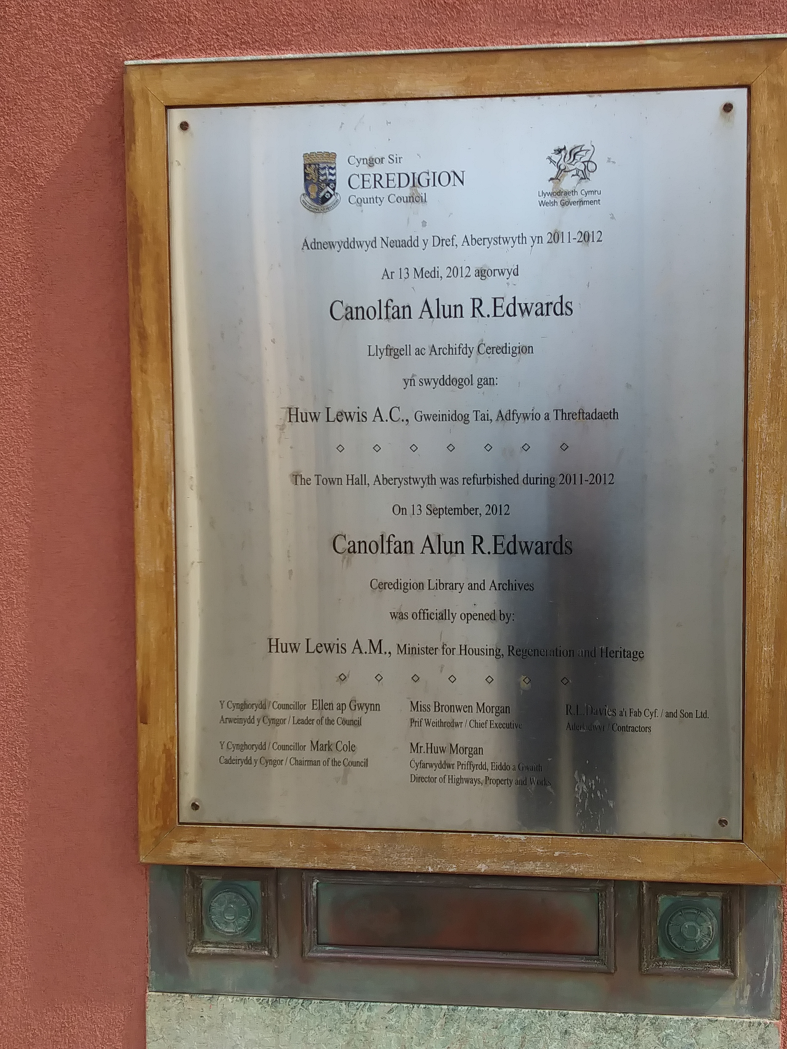 Alun R. Edwards plaque, Aberystwyth town library